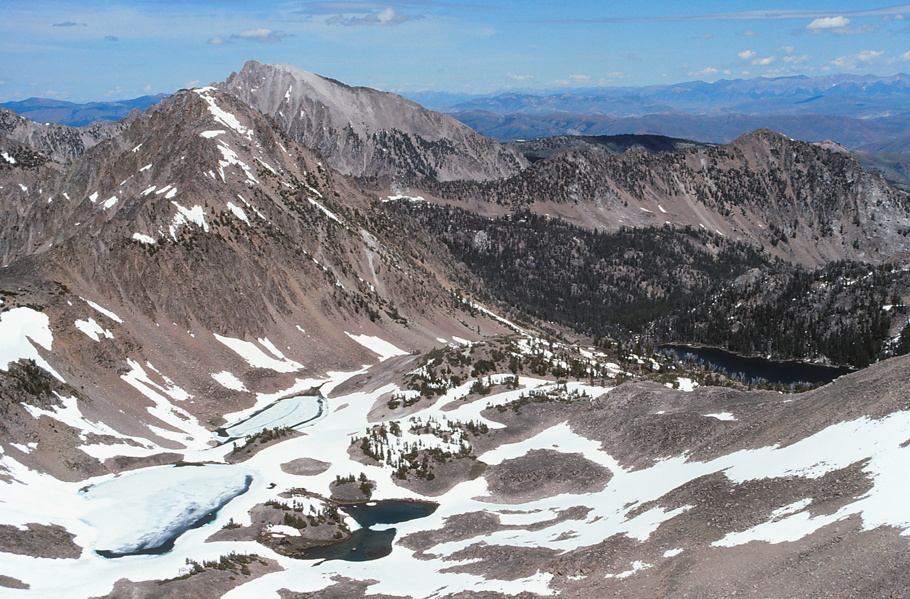 Stunning panorama from this knife-edge ridge, on a July afternoon in the White Cloud Mountains, Idaho. Scanned slide.